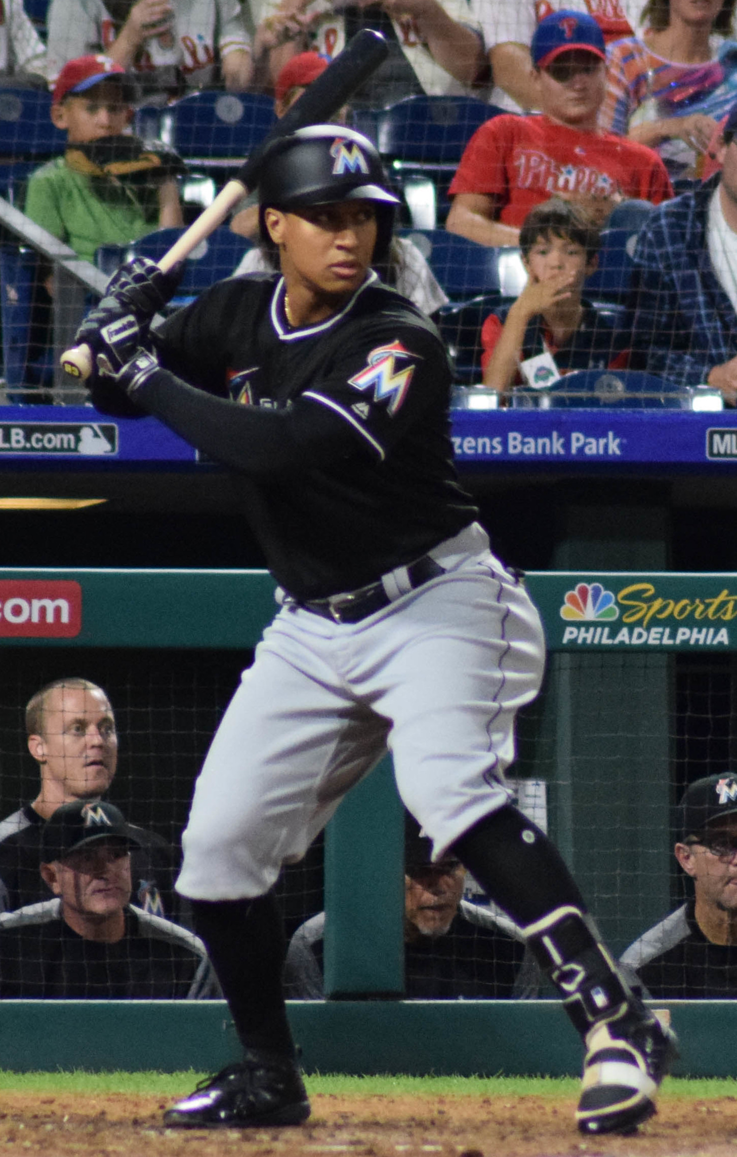 Chris Bostick bats for the Miami Marlins at Citizens Bank Park in 2018